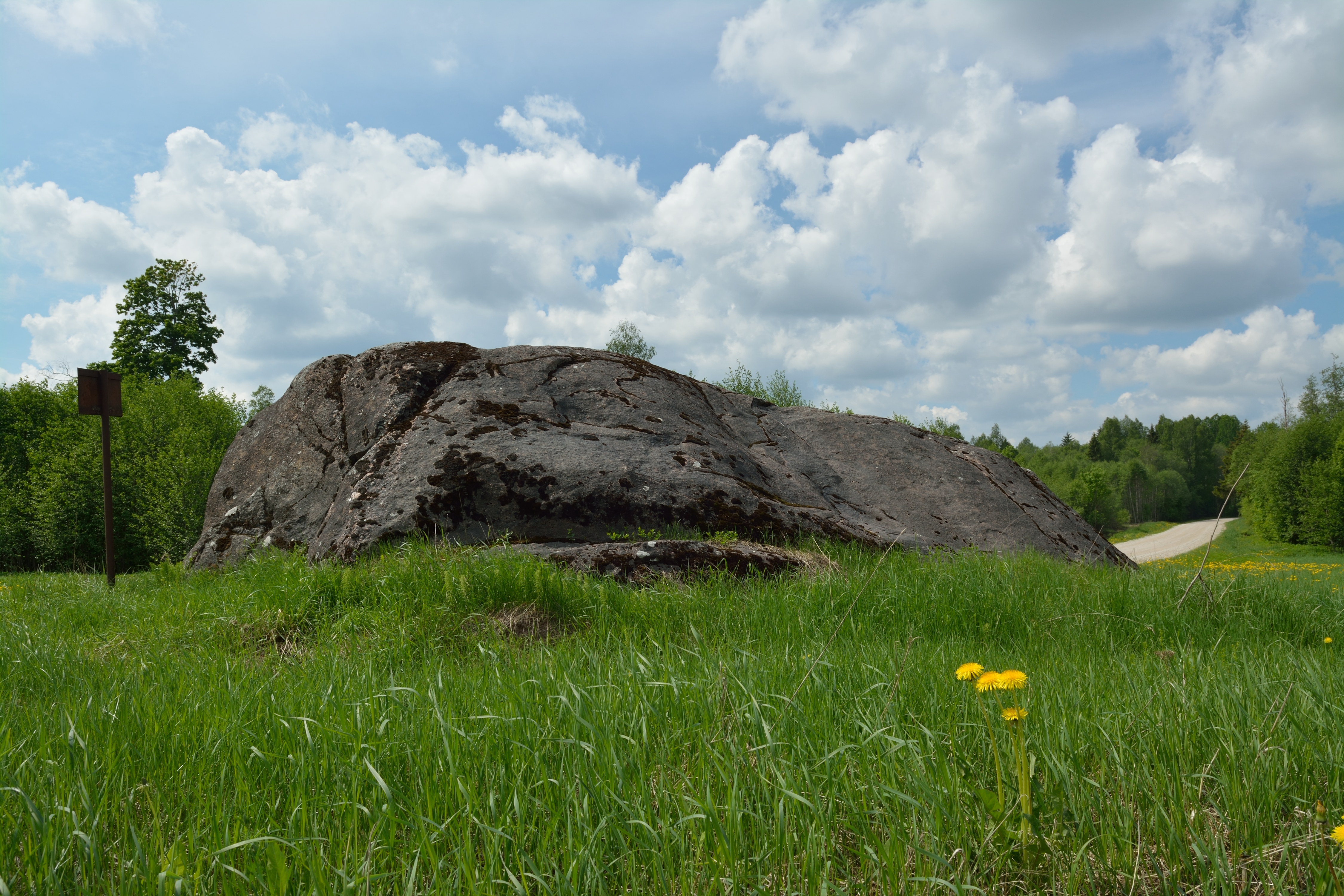 Vahastu glacial erratic